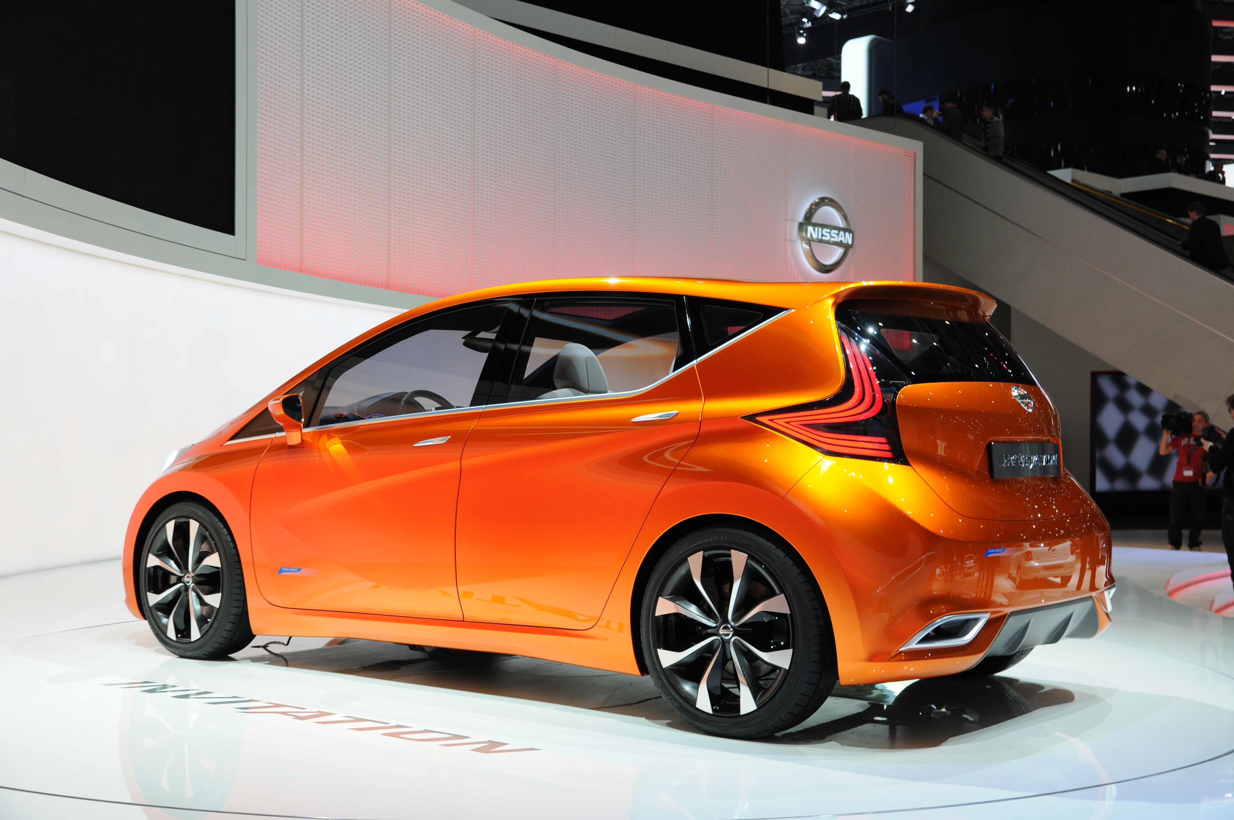 Geneva Motor Show 2012 (photos taken on the second press day)